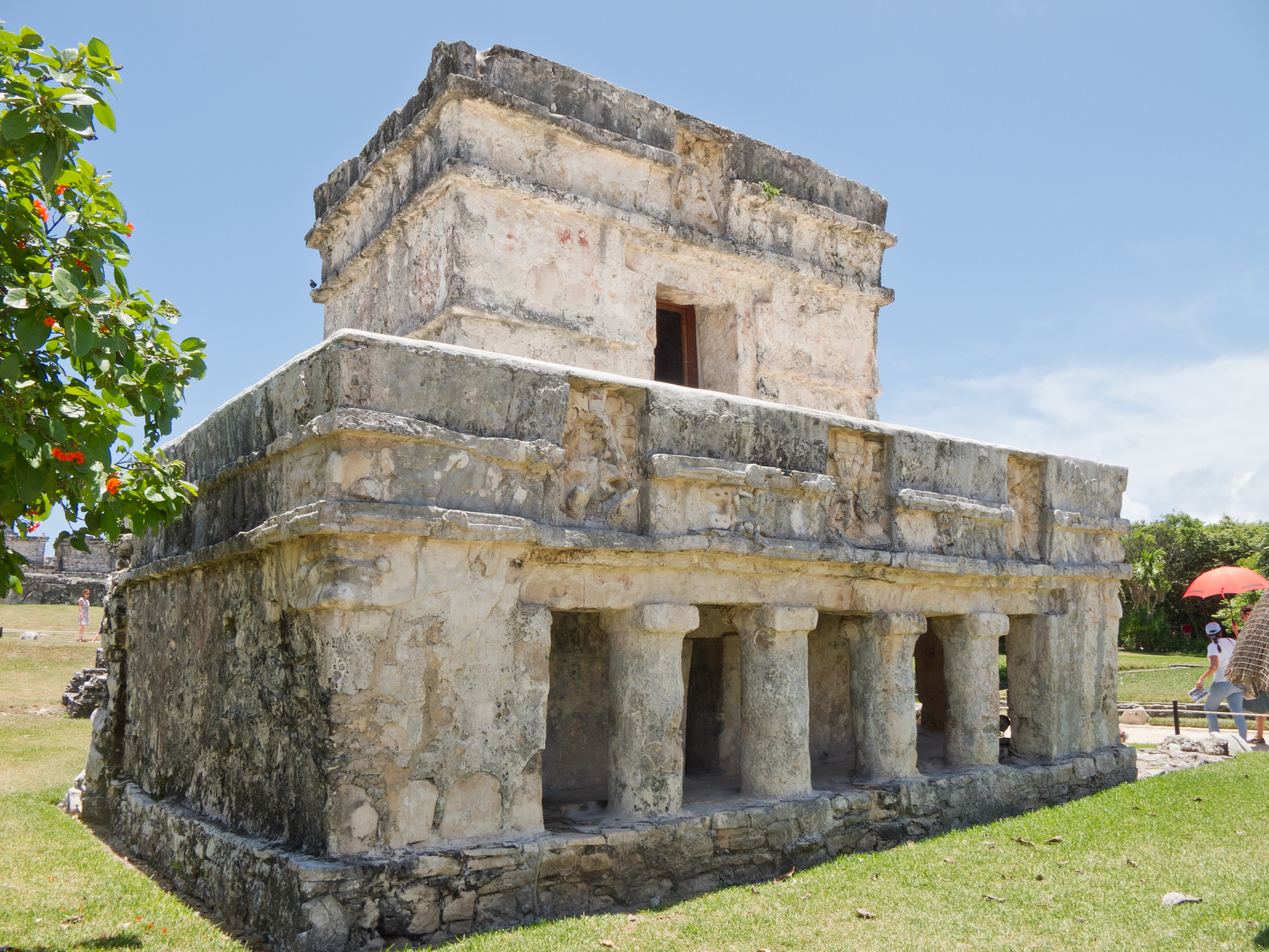 Tulum, Quintana Roo, Mexico.